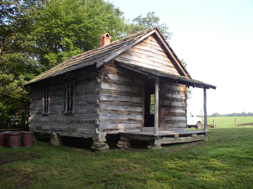 Brush Mountain Schoolhouse in the Hensley Settlement Historic District, Cumberland Gap National Historical Park, Kentucky, USA